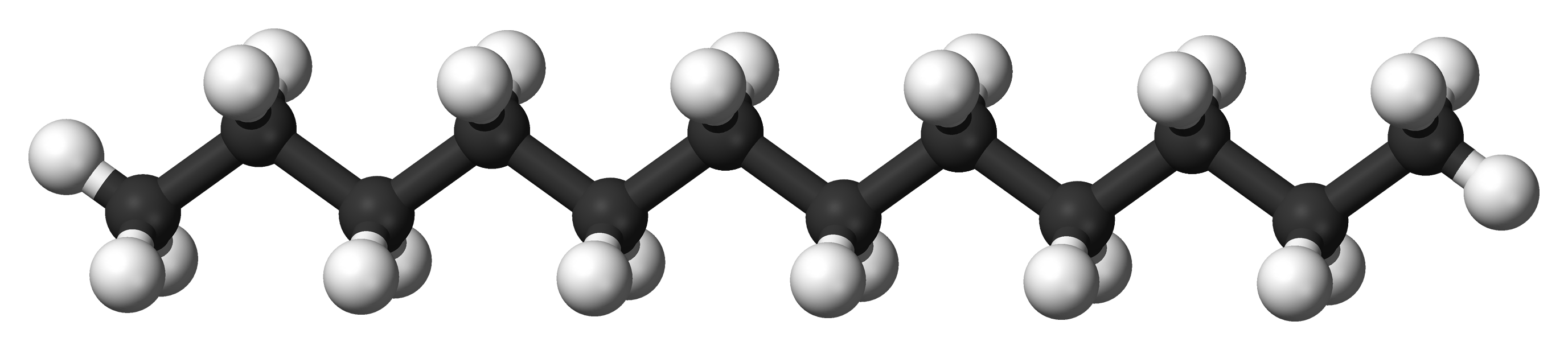 Ball and stick model of the dodecane molecule.